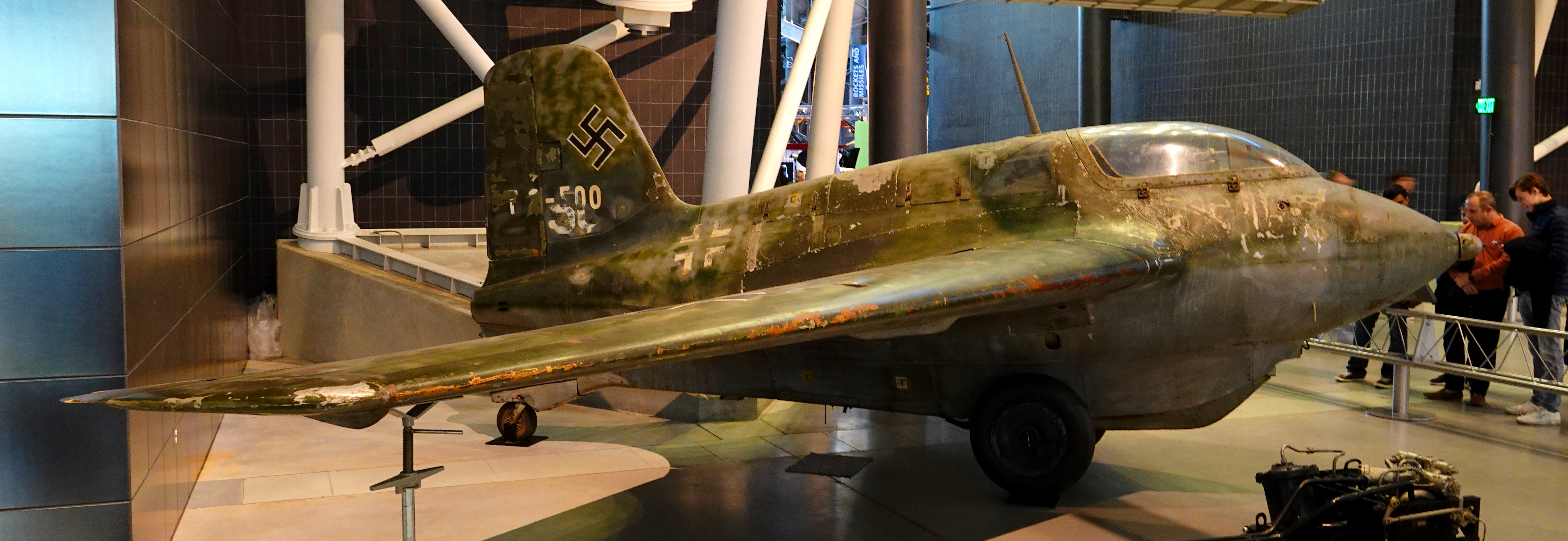 One of the most remarkable of the Wunderwaffen (wonder weapons) produced by Nazi Germany during World War II, the Messerschmitt Me 163 Komet (Comet) was the first and only tailless rocket-powered interceptor to see operational service. Like the other advanced weapons fielded by Germany during the final year of World War ll, the Me 163 had little actual effect on the outcome of the war. Considering the conditions under which it was developed and deployed, however, the Me 163 can be rightly considered a significant technological accomplishment. Transferred from the U.S. Air Force. Picture taken at the National Air and Space Museum's Steven F. Udvar-Hazy Center in Chantilly, Virginia, USA. Specifications: Dimensions: 96 x 366 x 211.75 in. (243.8 x 929.6 x 537.8 cm) Materials: Plywood, Metal Manufacturer: Messerschmitt A.G. Weight, empty: 1,905 kg (4,191 lb) Weight, gross: 4,110 kg (9,042 lb)) Engine: Walter 109-509A-2 1,700 kg (3,740 lb) thrust